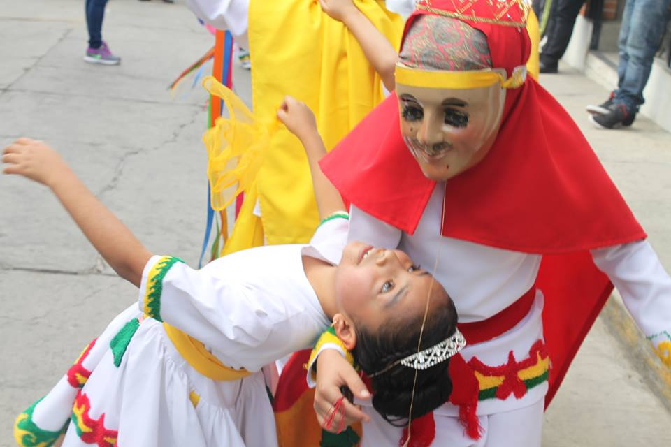 Integrantes de la Camada Ixtulco Infantil bailando la Jota